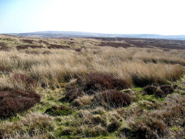 Mynydd Hiraethog. Denbigh Moors Y mae modd gweld adfail Gwylfa Hiraethog ar y gorwel. The ruins of Gwylfa Hiraethog (Lord Davenport's shooting lodge)can just about be seen on the horizon.